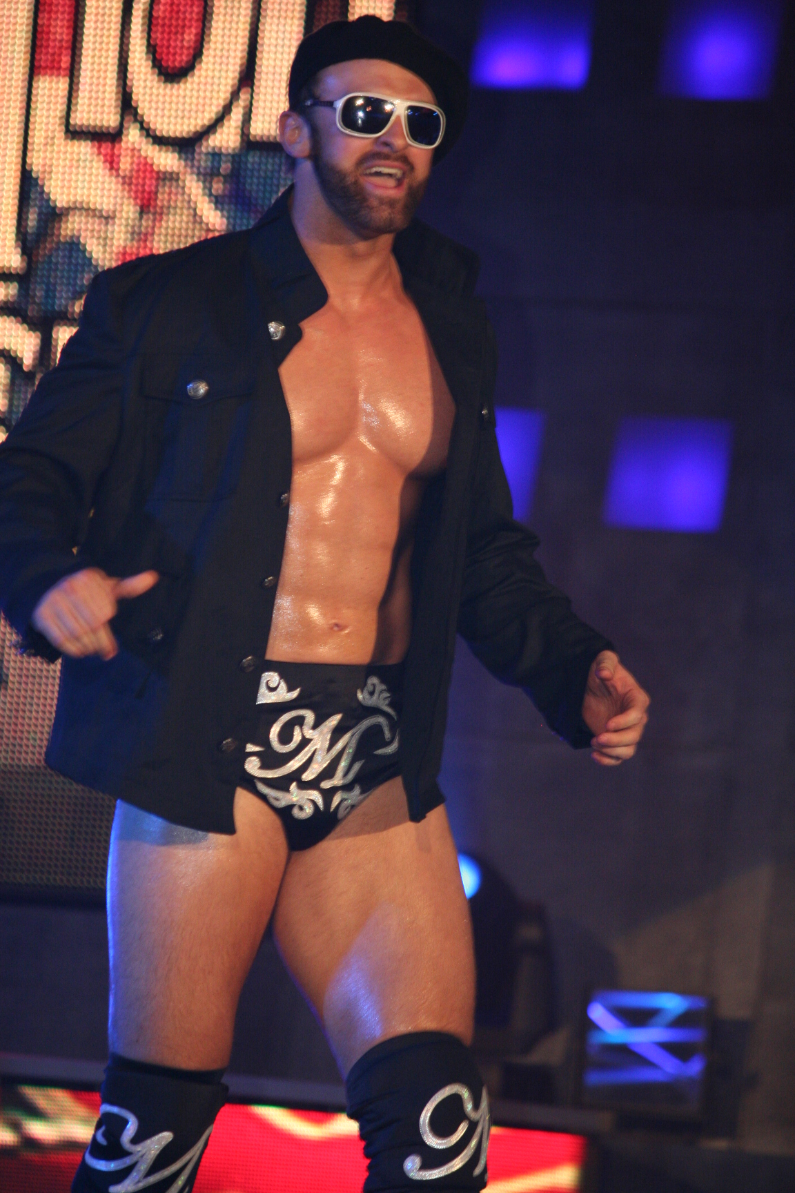 Professional wrestler Magnus at a TNA Impact! taping